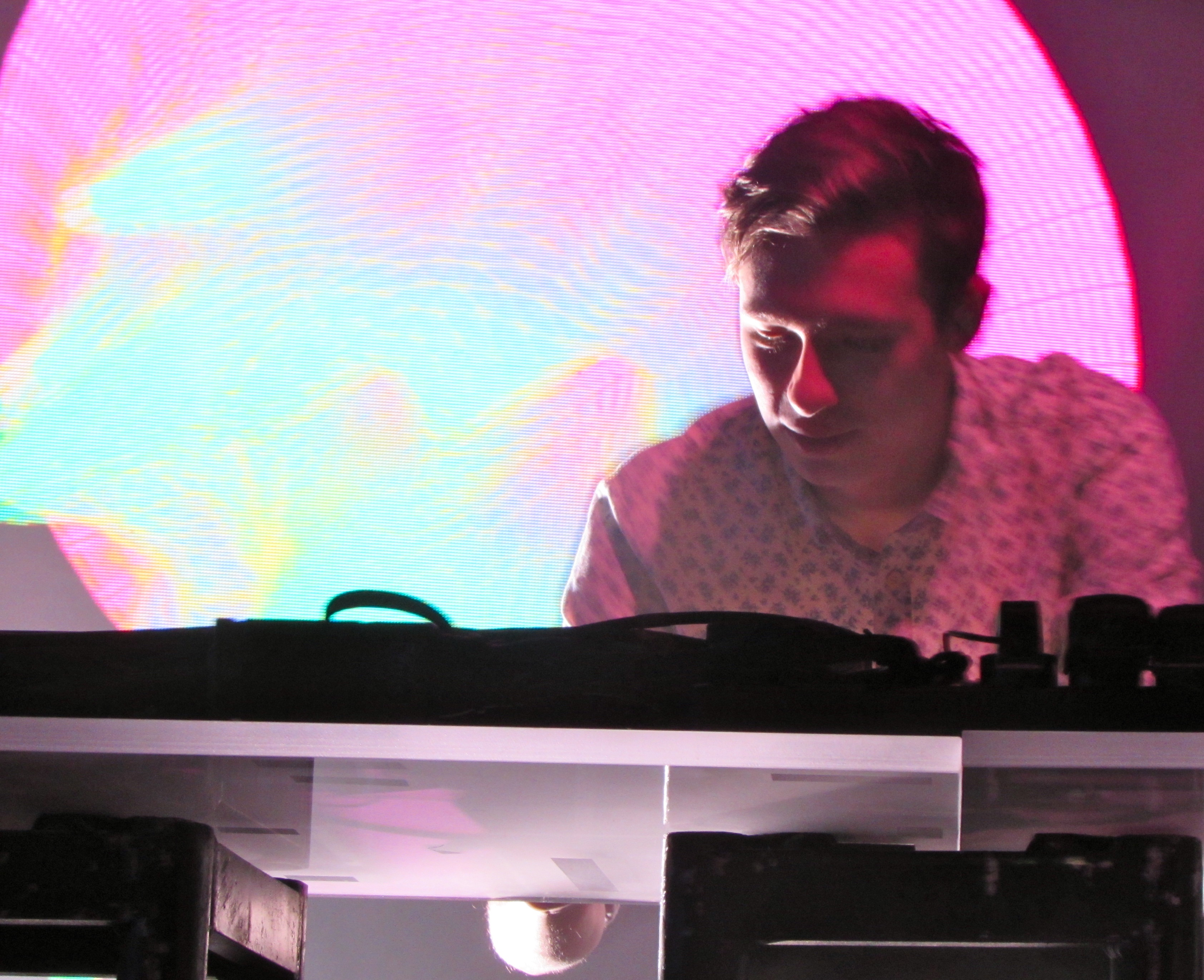 Flume at Brooklyn Bowl Las Vegas